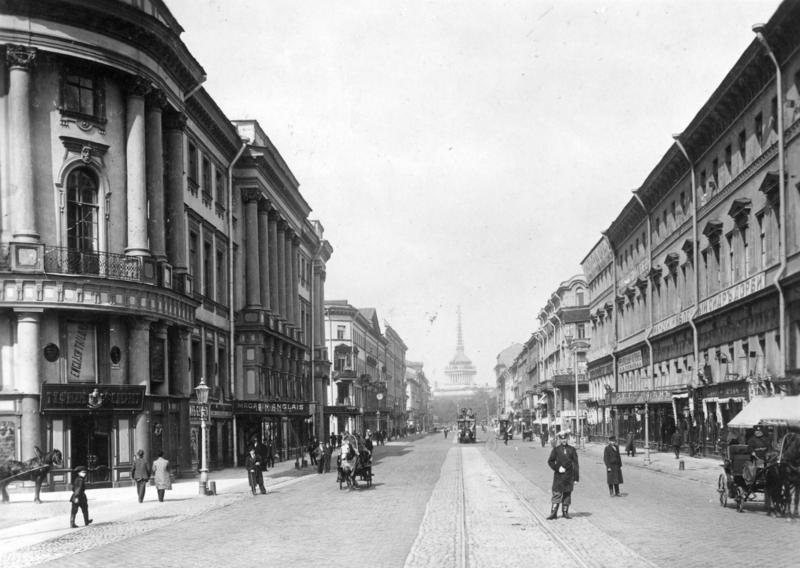 Nevsky Prospekt (street) in Saint Petersburg (Imperial Russia). Vista of street from the Politseisky Bridge to the Main Admiralty building. Chicherin House facade on left side. Summer 1901 photograph by Karl Bulla.